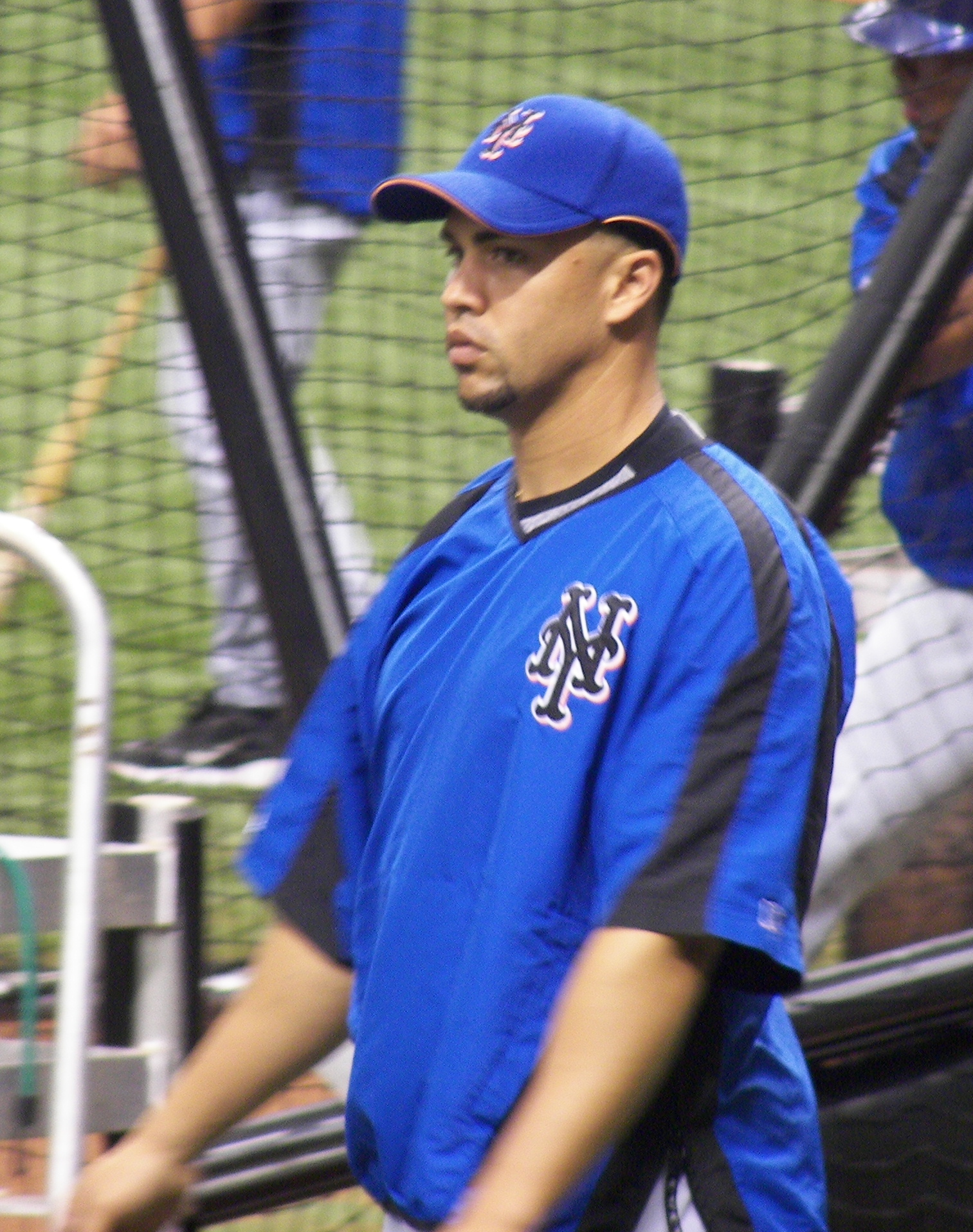 New York Mets center fielder Carlos Beltrán before a Mets/Devil Rays spring training game at Tropicana Field in St. Petersburg, Florida.